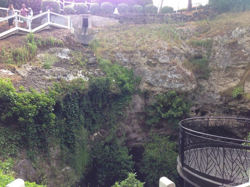 The Cave Gardens from inside the cave balcony (Mount Gambier)